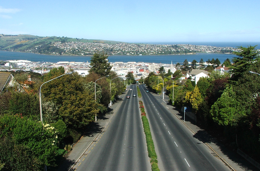 Central Dunedin, New Zealand, seen from the Roslyn Overbridge. Photo by James Dignan (user:Grutness), 4 October, 2008